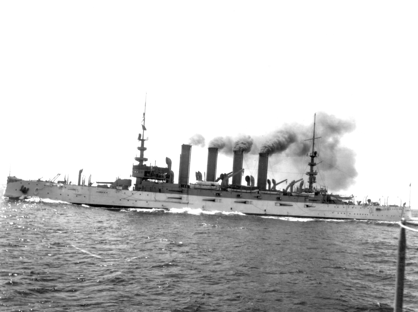 USS Colorado (ACR-7) Port side underway, September 1907. Image # (19-N-6-10-11)